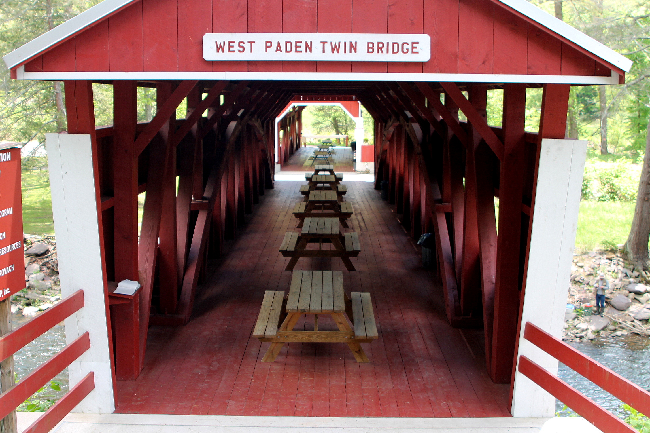 one of the Paden Twin Bridges over Huntington Creek